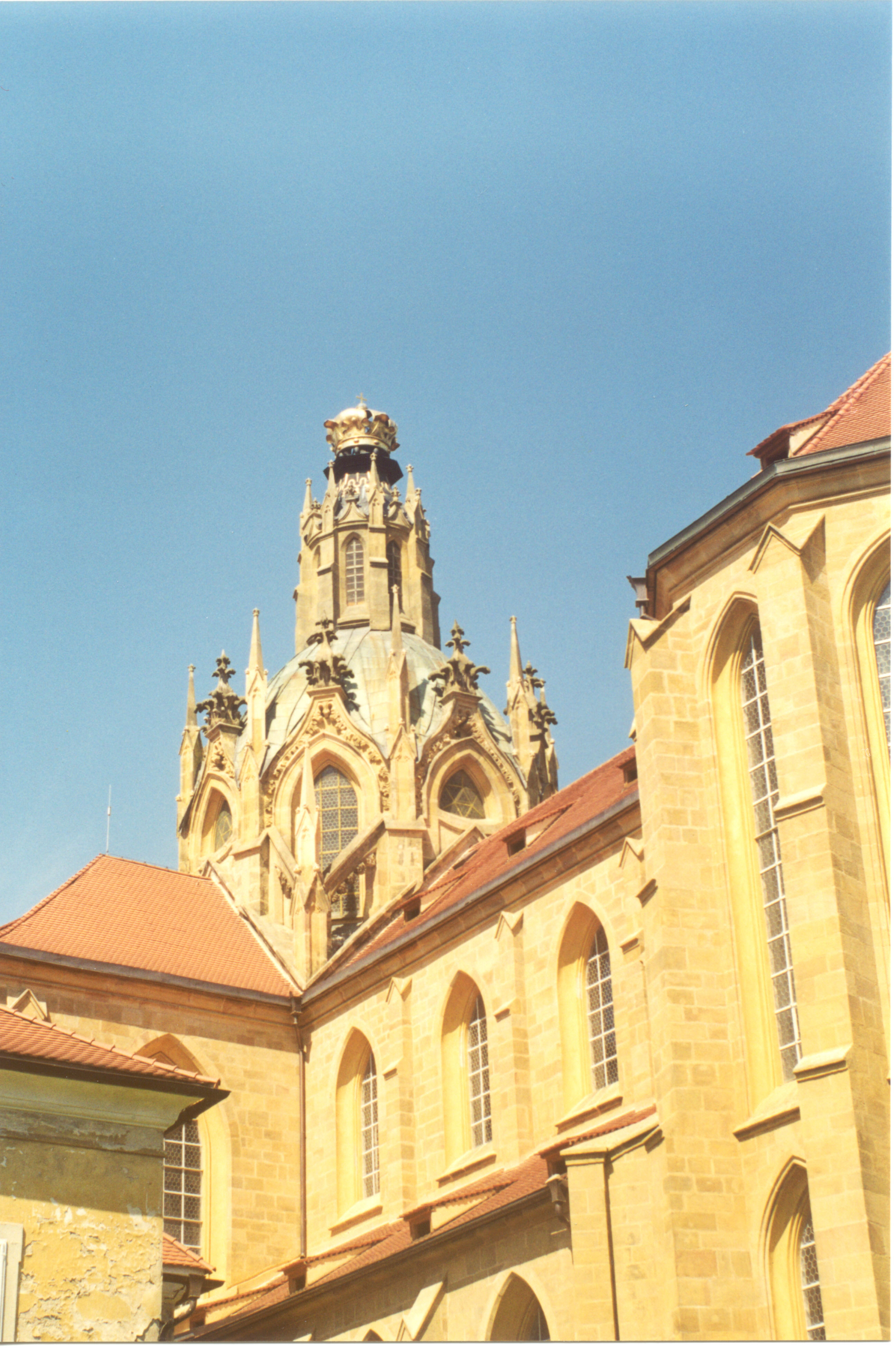 Church in Kladruby, Czech Republic